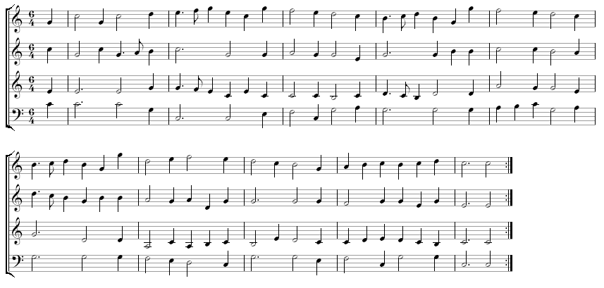 Courante by Michael Praetorius (1571 - 1621)